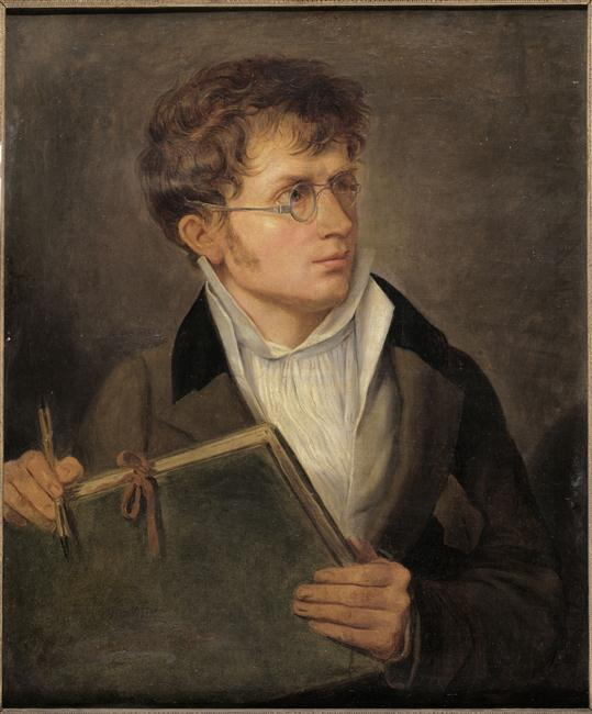 Portrait de Pierre Lacour (1778-1859) par son père.